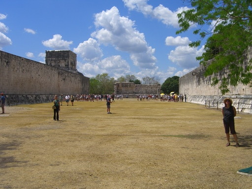 The Great Ball Court of Chich'en Itza (interior) with tourists, Yucatán